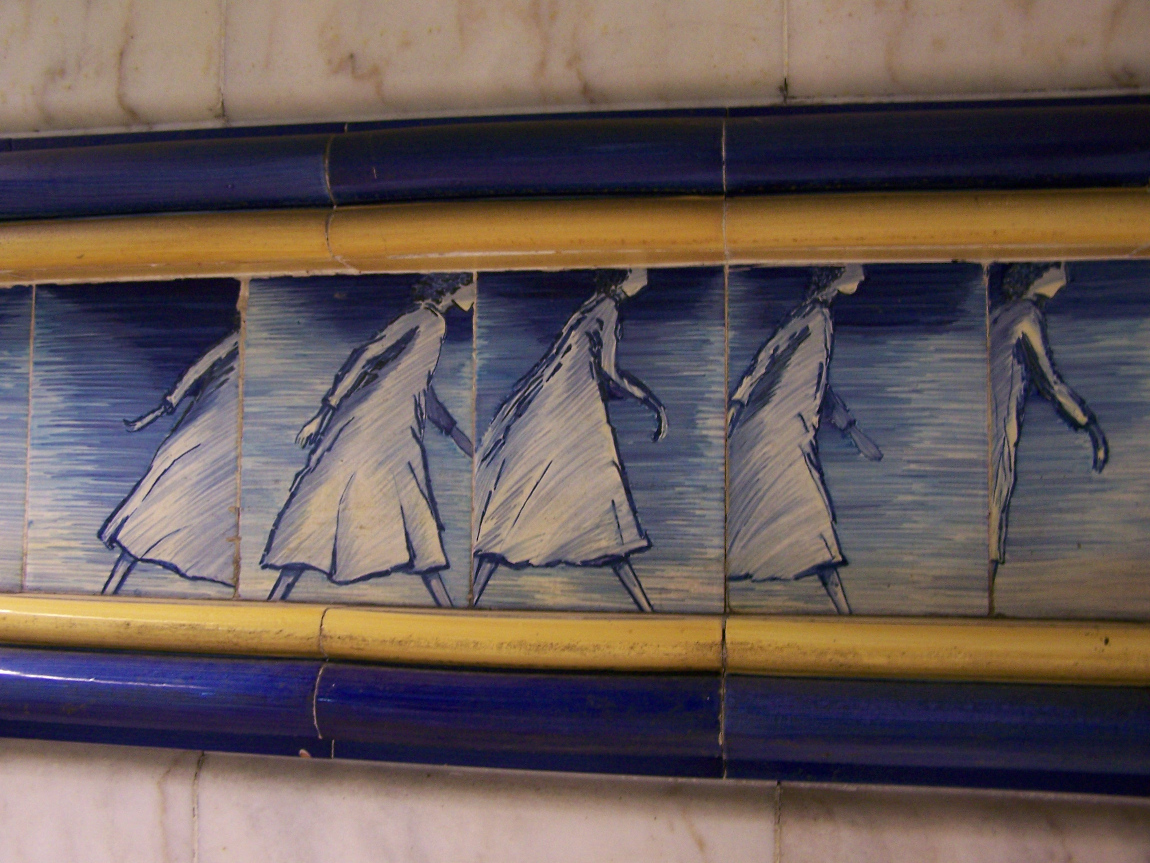 "The running woman" at the Lisbon metro station Rossio, green line.